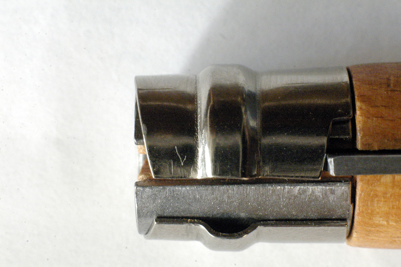 Opinel-Pocket-Knife closed and safety-ring closed